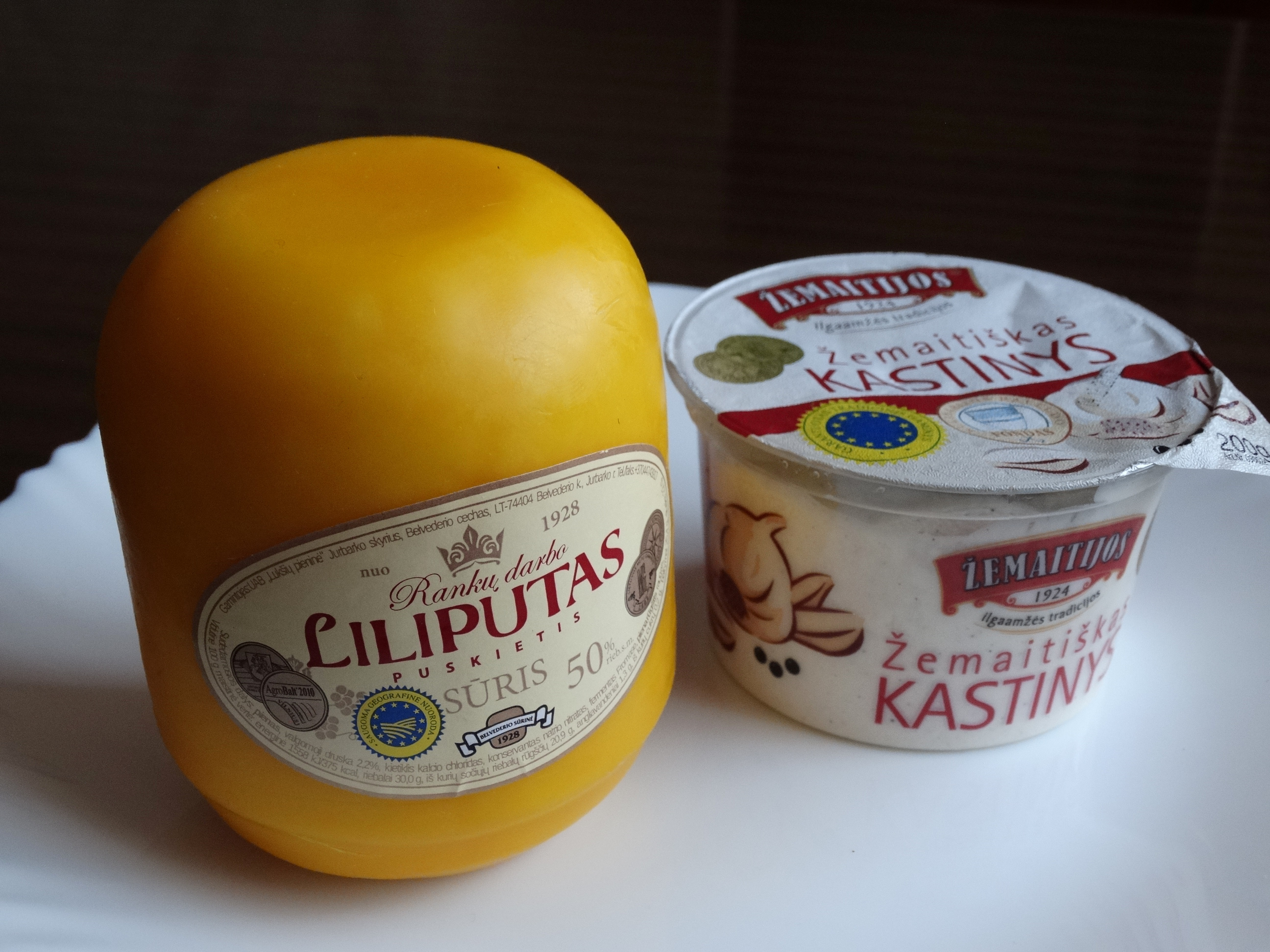 Traditional Lithuanian food: cheese „Liliputas“, žemaitiškas kastinys (from Samogitia)